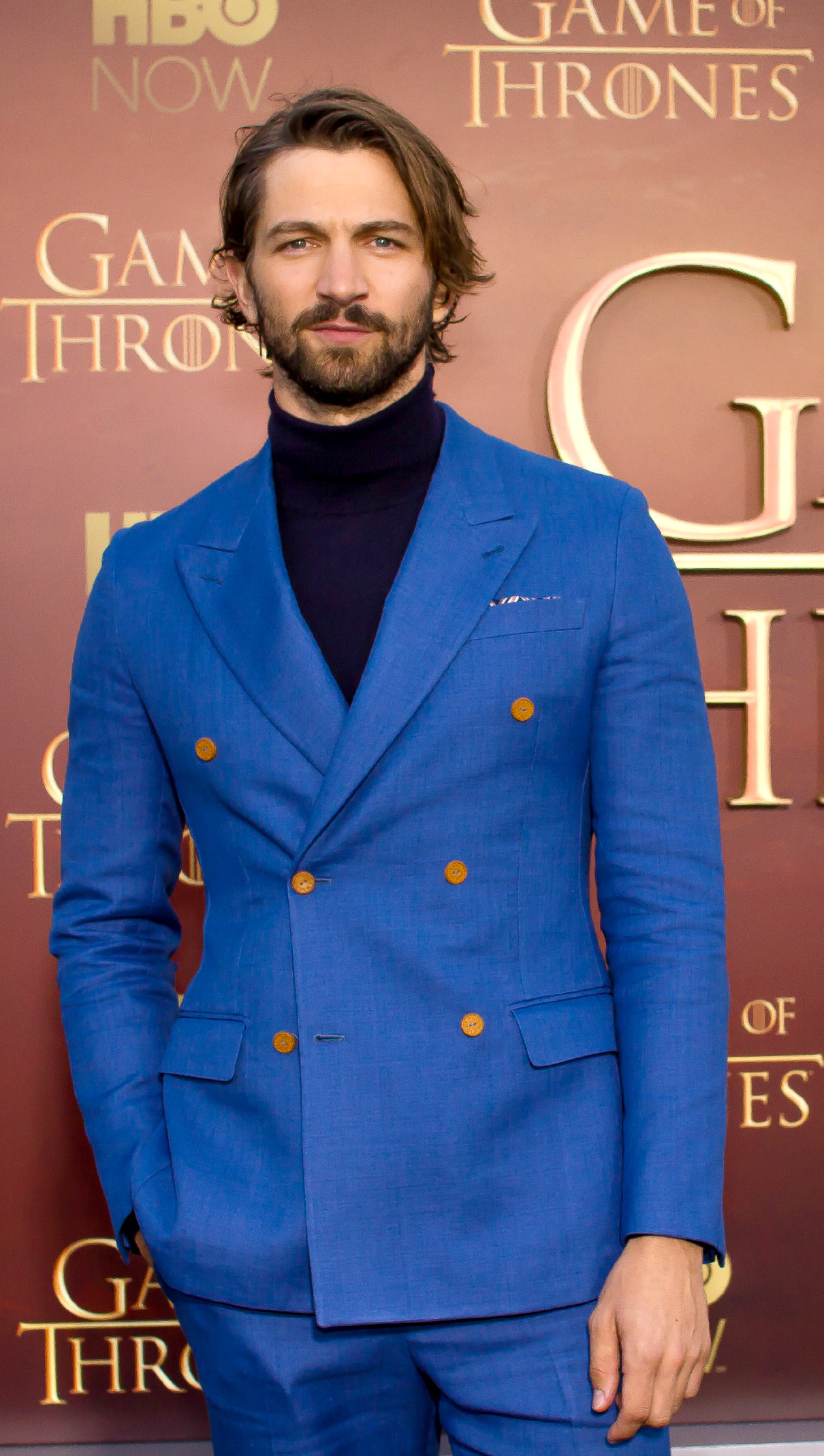 This is a photo of Michiel Huisman that was taken at the premiere of Game of Thrones season 5 in San Francisco March 23rd 2015. The photo was taken by Jagpal Khahera.